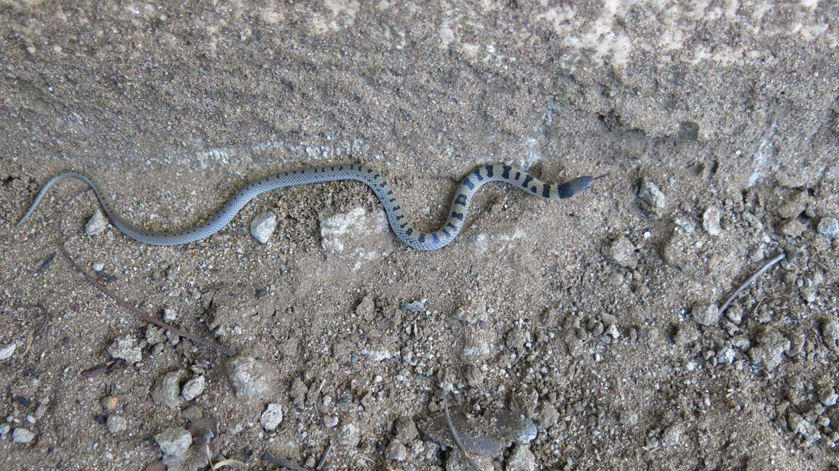 Aparallactus lunulatus, Juvenile